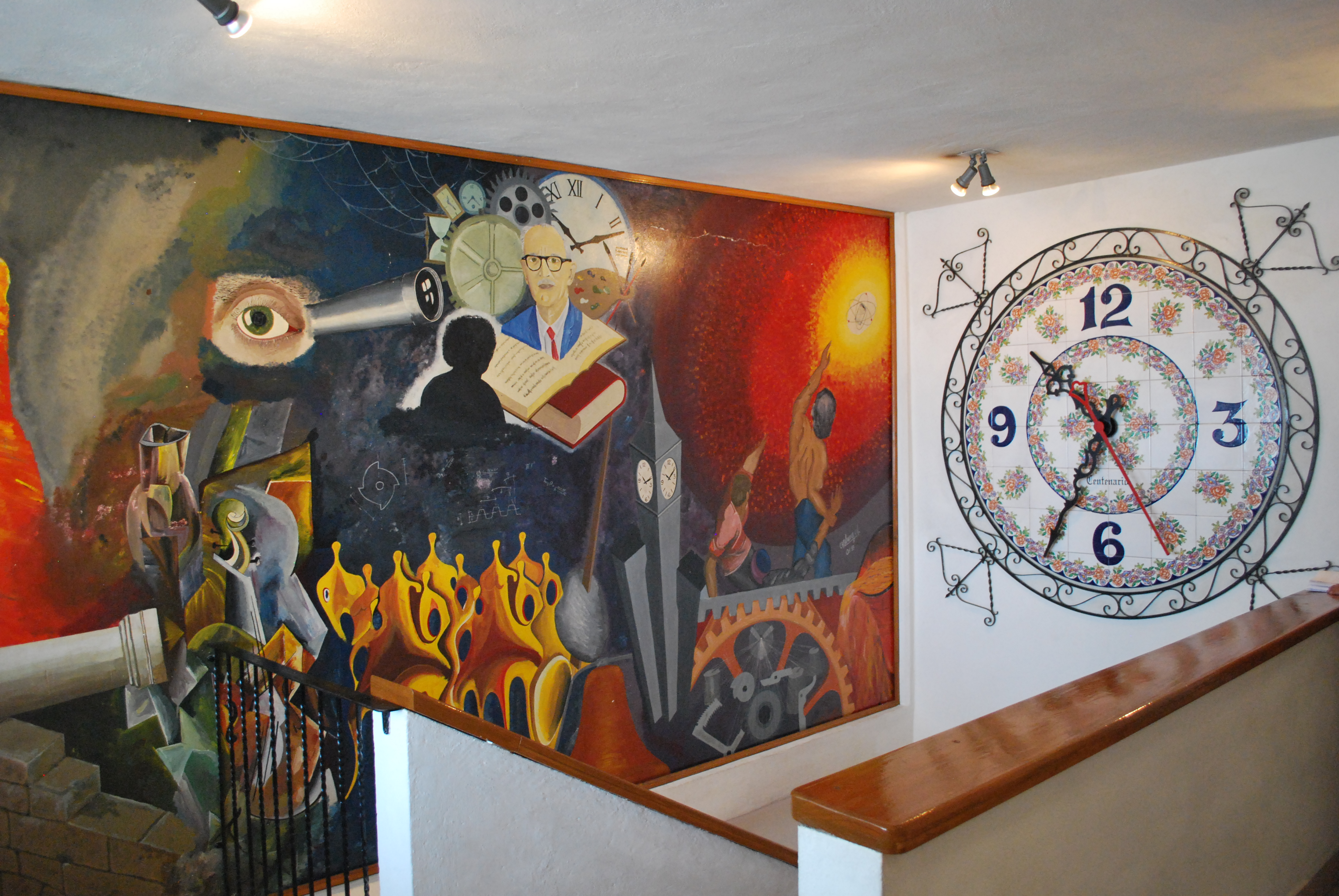 Mural and mural clock in the stairwell of the Clock Museum in Zacatlán, Puebla, Mexico